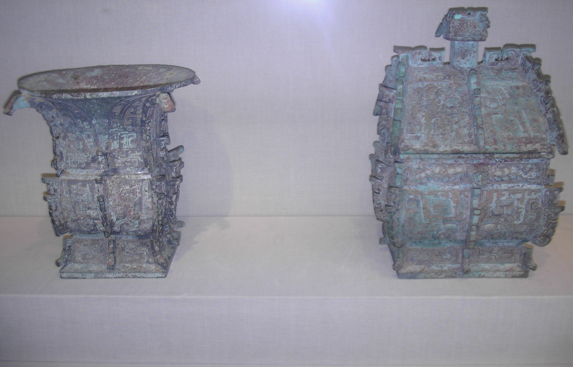 Left item: A Chinese bronze "fang zun" ritual wine container, from the Western Zhou Dynasty, dated c. 1000 BC, excavated in modern-day Luoyang. The written inscription cast in bronze on the vessel commemorates a gift of cowrie shells - currency in China at the time - to its owner from someone of presumed elite status in Zhou era society. [1] Right item: A Chinese bronze "fang yi" ritual container, from the Western Zhou Dynasty, dated c. 1000 BC. A written inscription of some 180 Chinese characters appears twice on the vessel, in the interior and on the inside of the lid. The written inscription comments on state rituals that accompany court ceremony, recorded by an official scribe of a Zhou nobleman. [2] From the Freer and Sackler Galleries of Washington D.C.